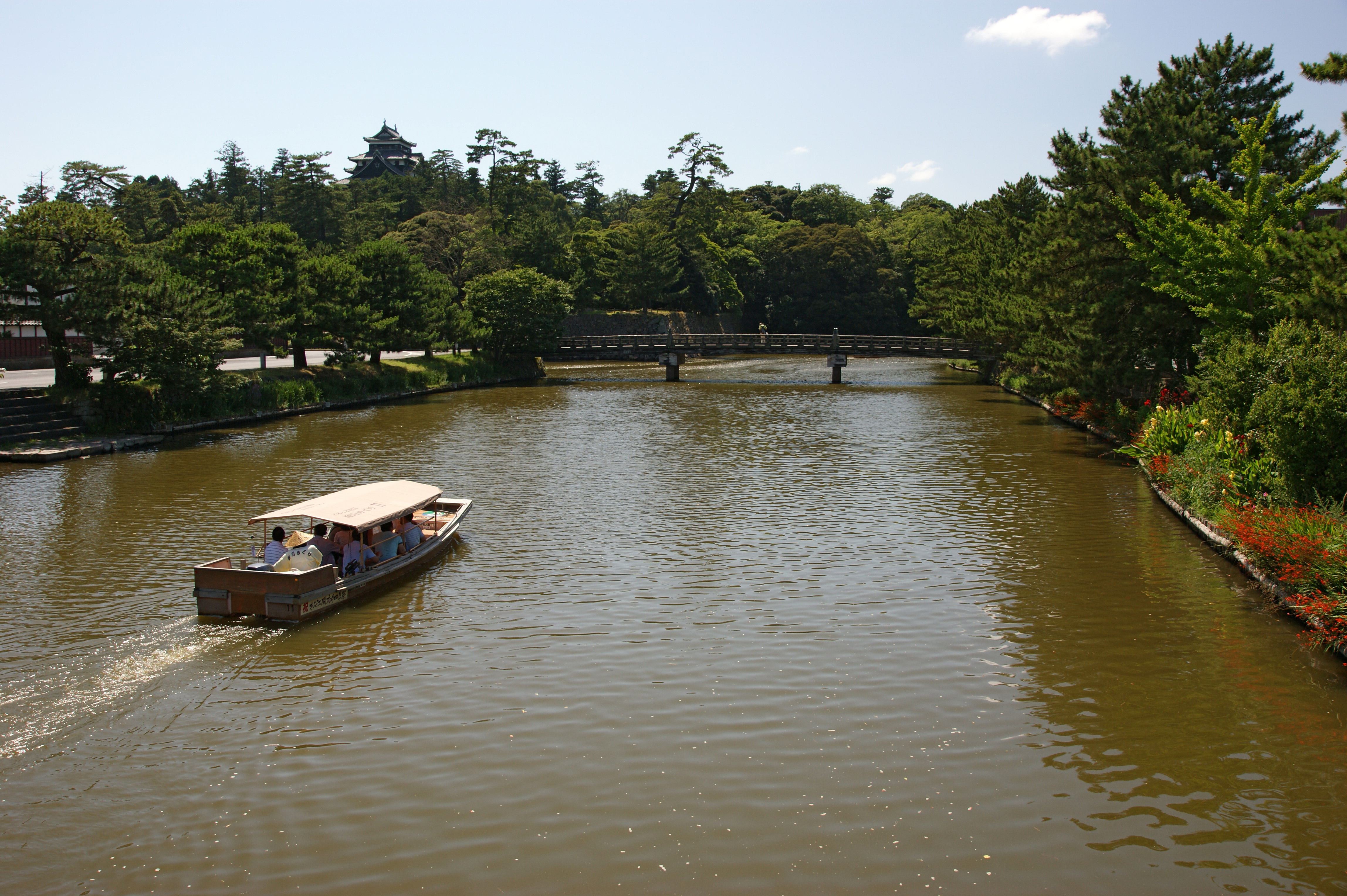 Matsue Castle in Matsue, Shimane prefecture, Japan